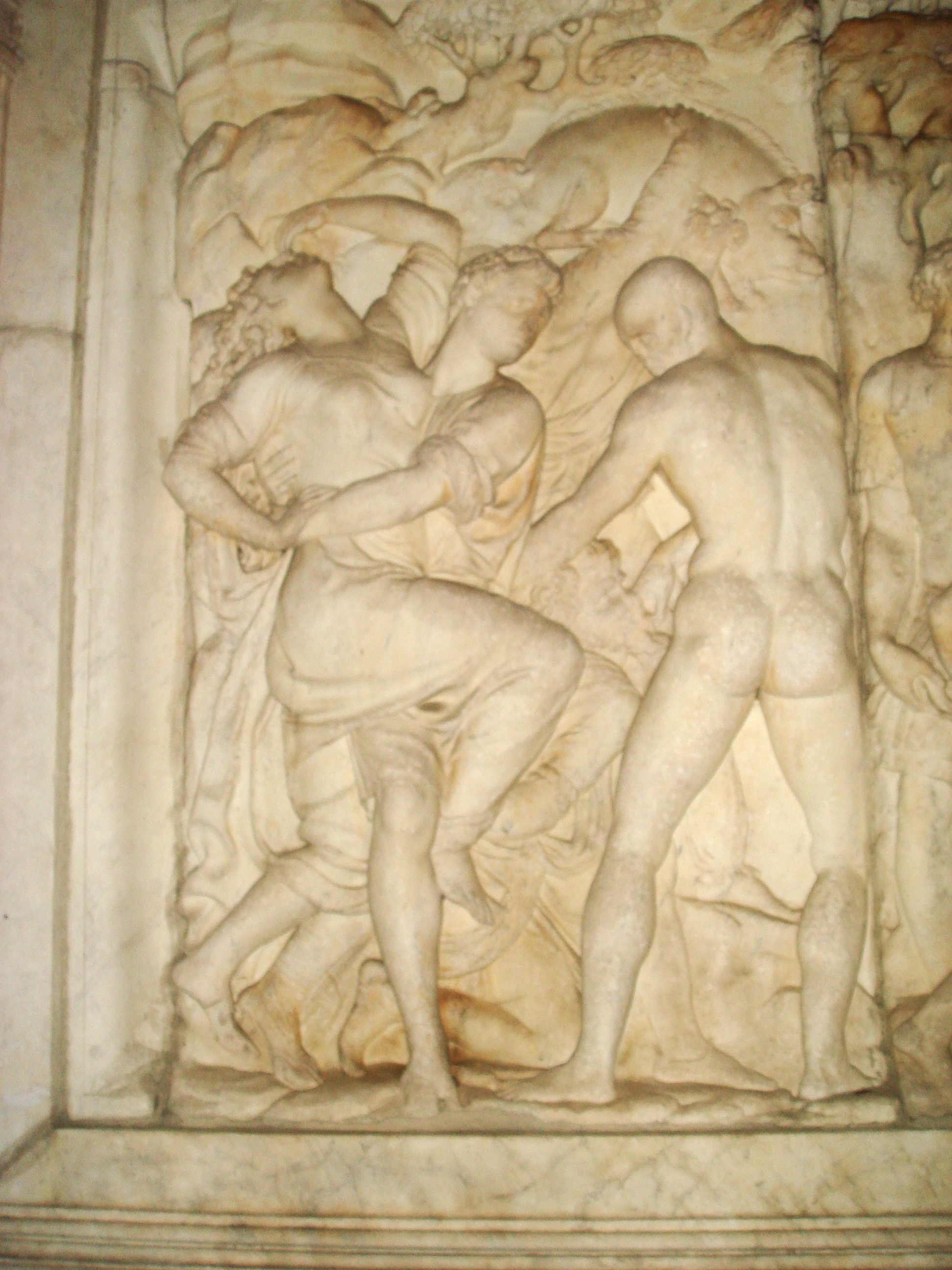 The monument to condottiero Giovanni dalle Bande Nere (Giovanni de' Medici, father to Cosimo I de' Medici), was sculpted by Baccio Bandinelli in 1540 and stands in Piazza san Lorenzo square in Florence. Left incomplete for a long time (the statue was in Palazzo Vecchio) it was completed at last in 1850. In this image, relief showing "The Clemence of the winning condottiero with his prisoners" (detail). Picture by Giovanni Dall'Orto, October 27 2006.